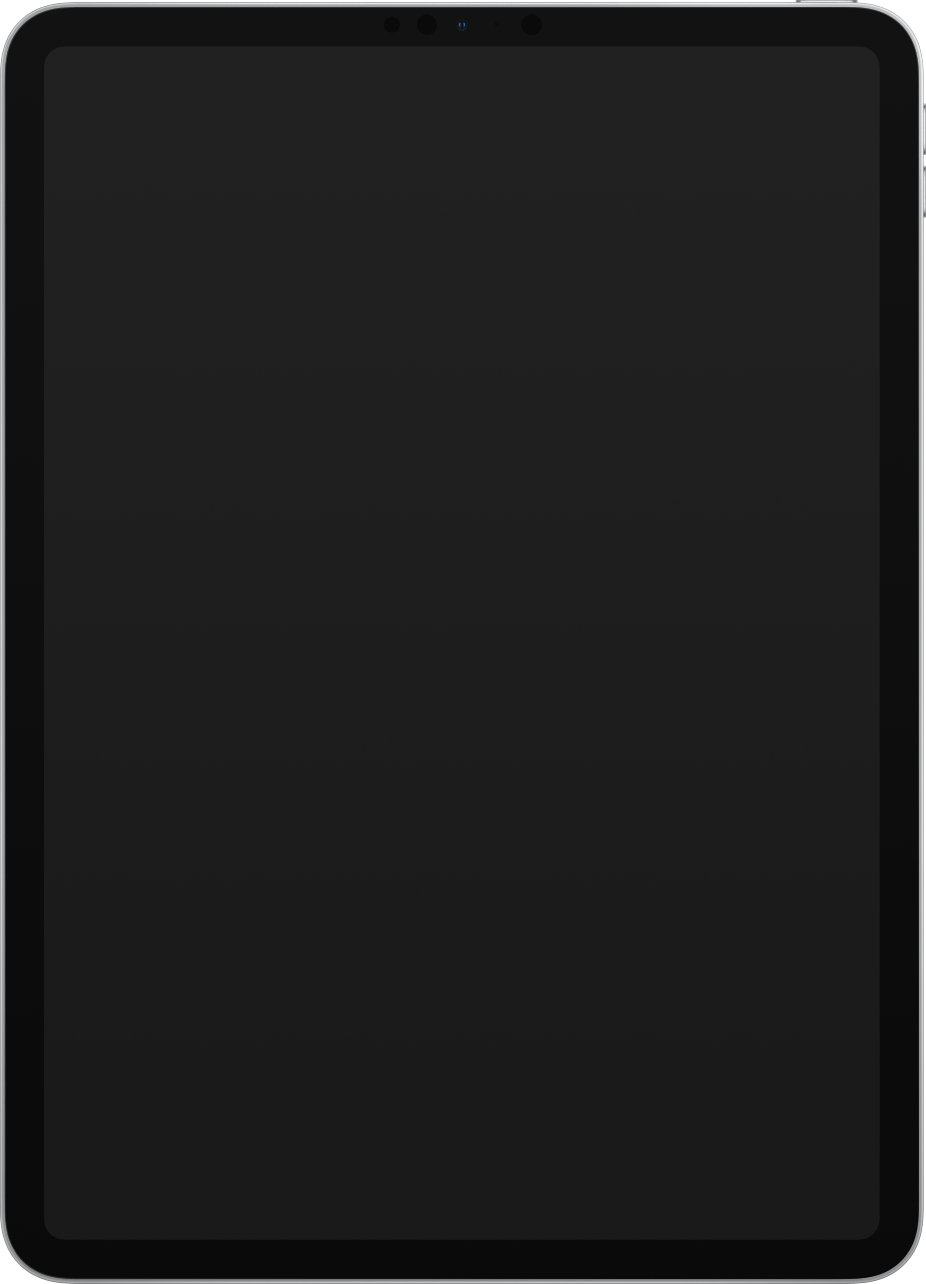 The 11-inch iPad Pro mockup